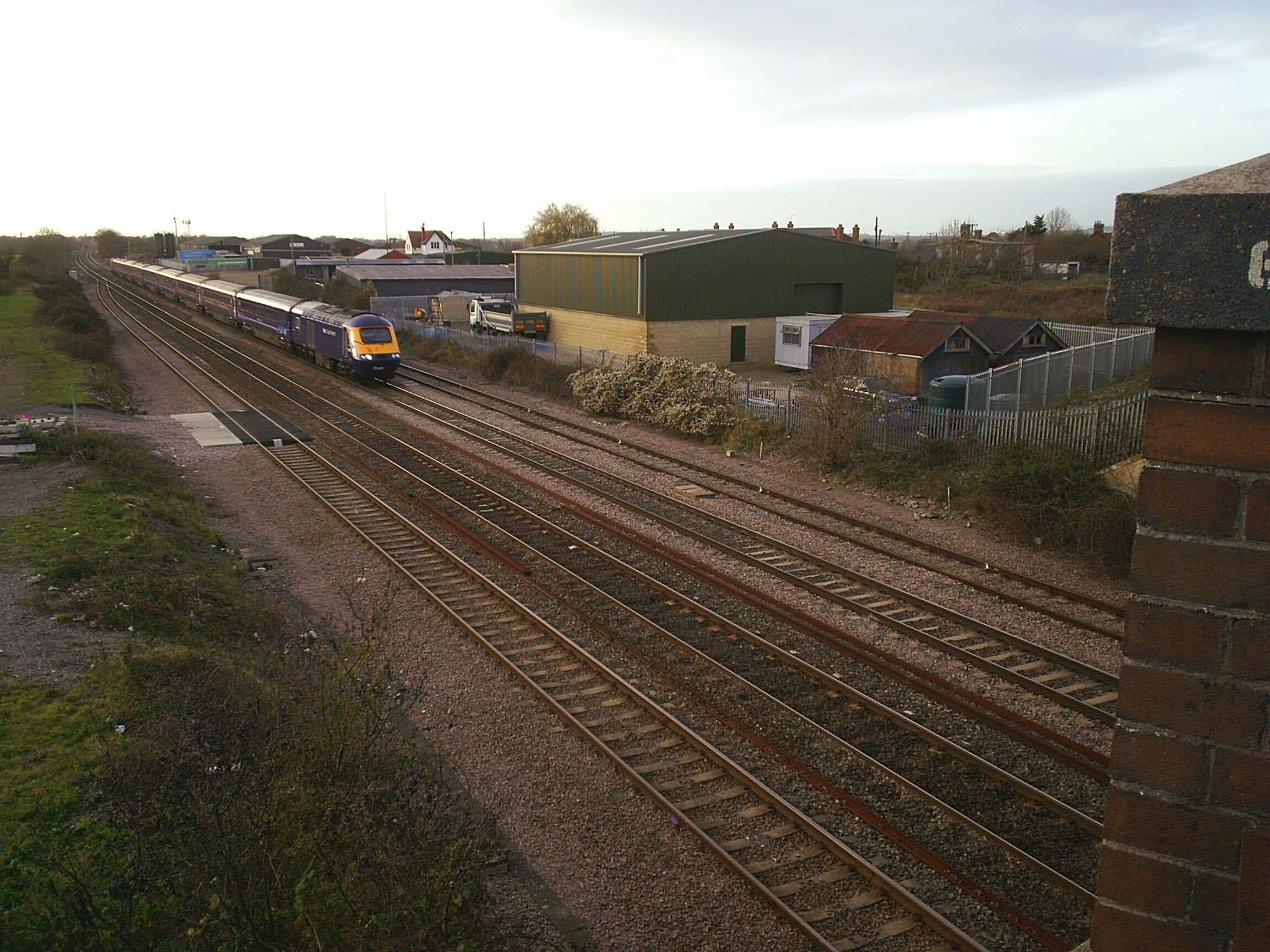 A First Great Western Class 43 high speed train passing the remains of Challow railway station